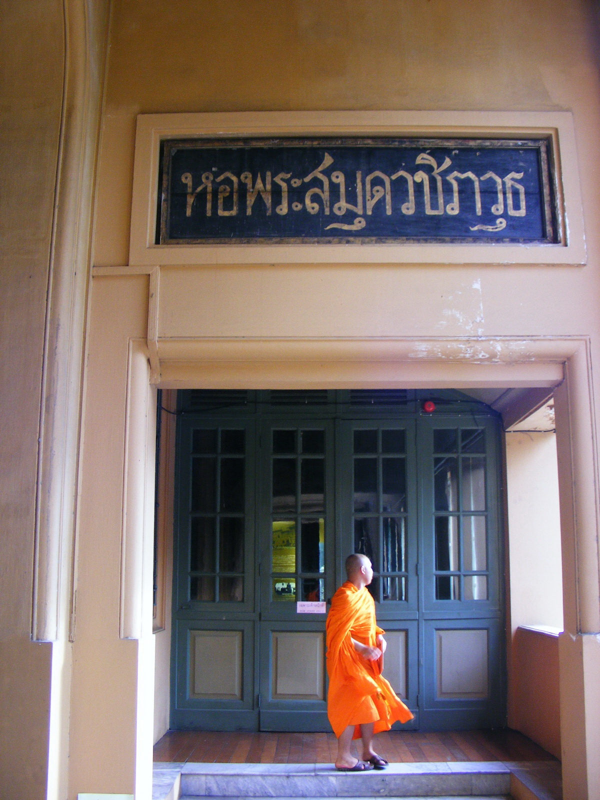 Wat Mahathat Yuwaratrangsarit of Thailand Location: Bangkok, Thailand.